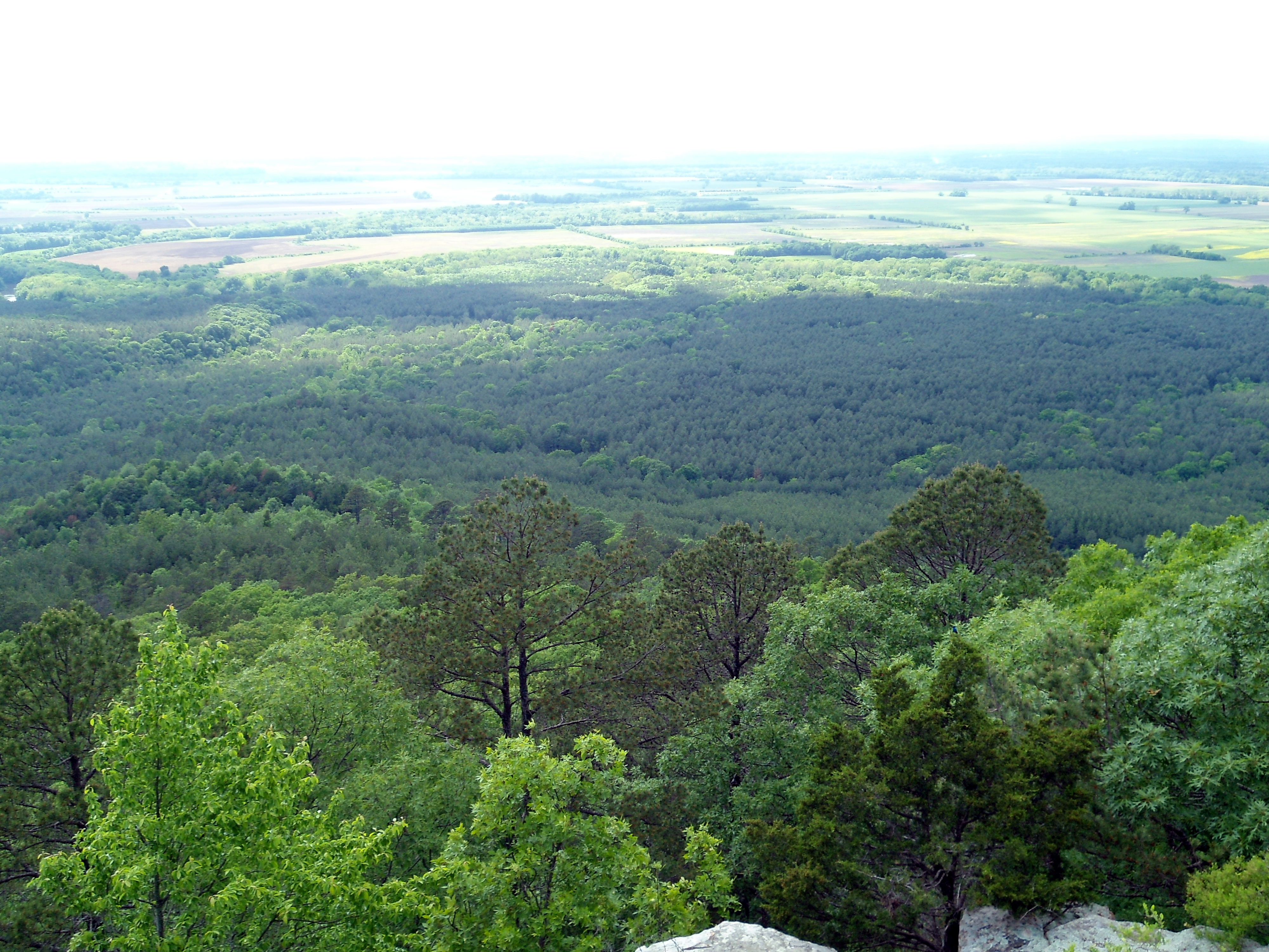 View of the Arkansas River Valley from atop Petit Jean Mountain. Facing west